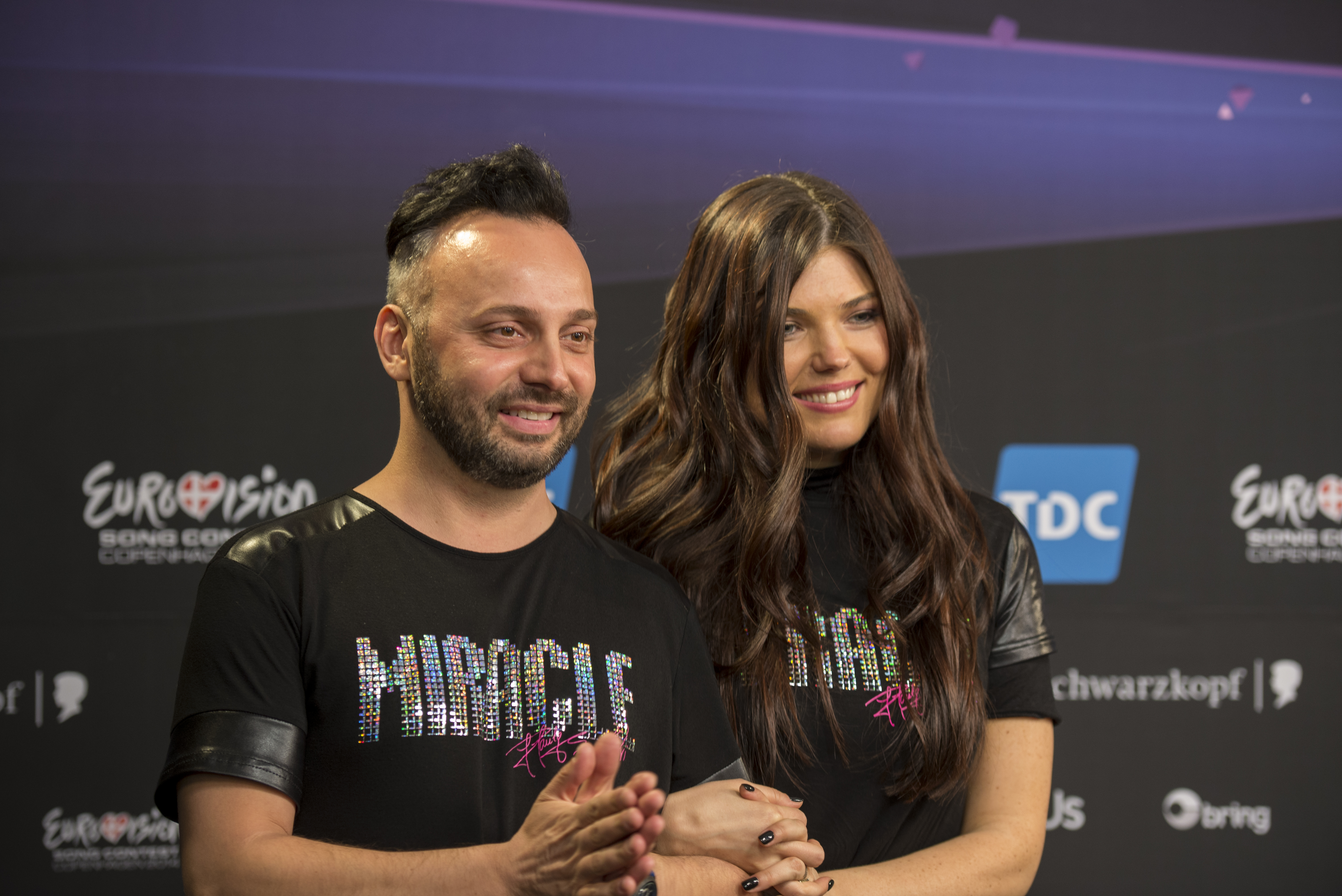 Paula Seling and Ovidiu Cernăuțeanu at a Meet & Greet during the Eurovision Song Contest 2014 Copenhagen. (Help translate this text)